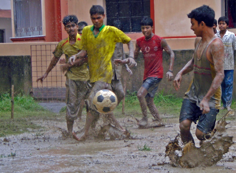 People playing football in a street in Kolkata/Calcutta. Original description - "You wont know the fun...if you have never experienced it, i.e., playing in the mud and under the rain...its just fun...well, India though a cricket hyped nation...it has got a huge fan following for this form of the game...especially in West Bengal..."